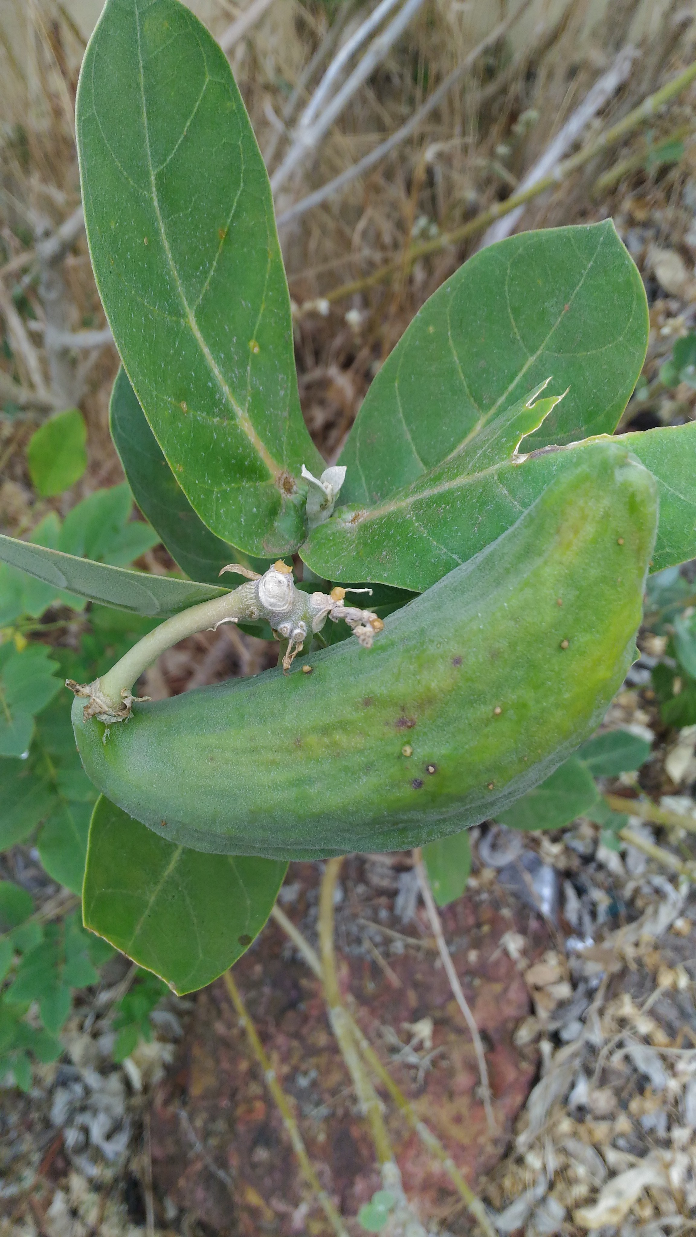 Erukku_fruit